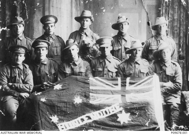 Portrait of soldiers from Bungendore, New South Wales, who served in the Australian 55th and 56th Battalions during World War I